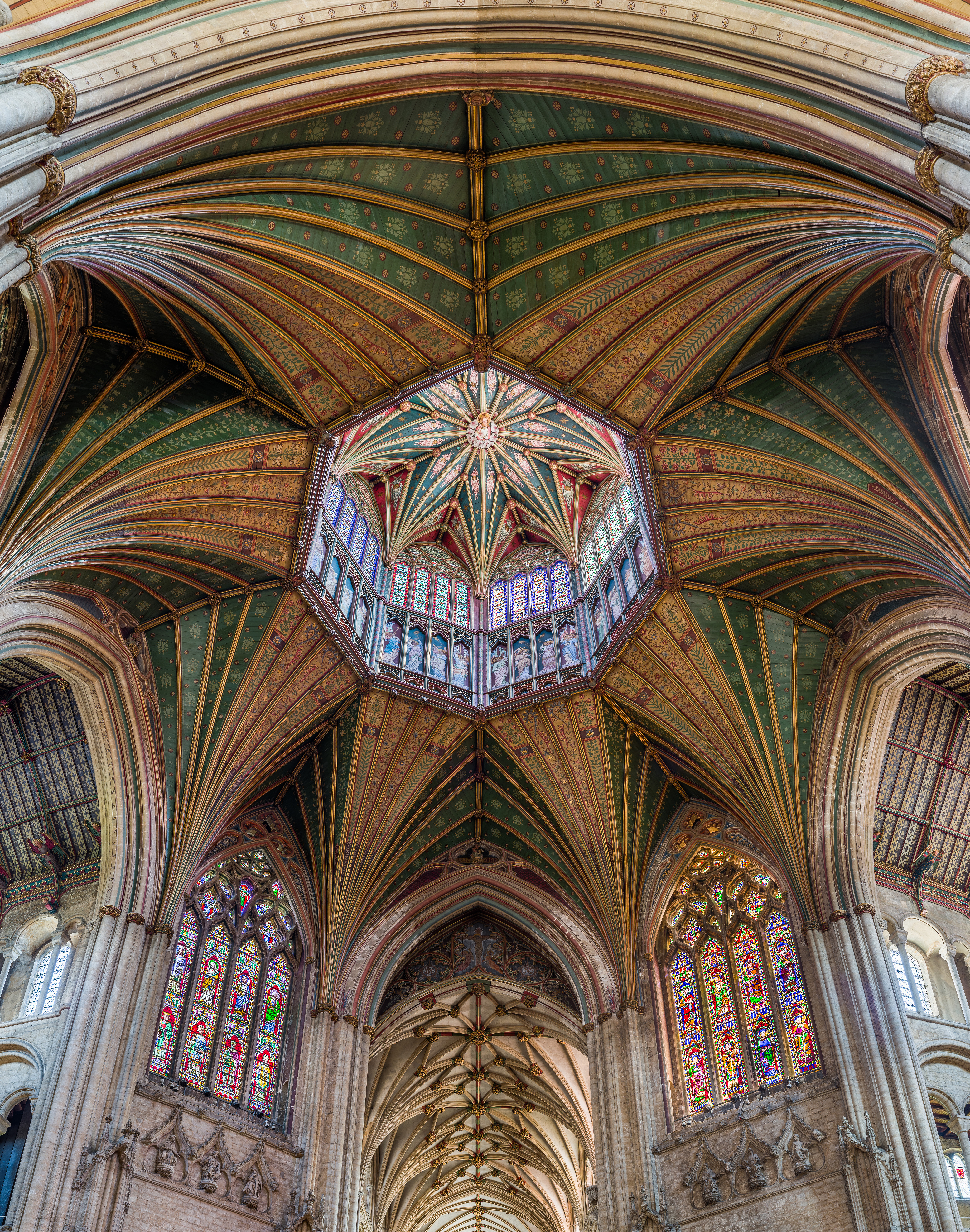 The Lantern viewed from the octagon in Ely Cathedral, Cambridgeshire, England.